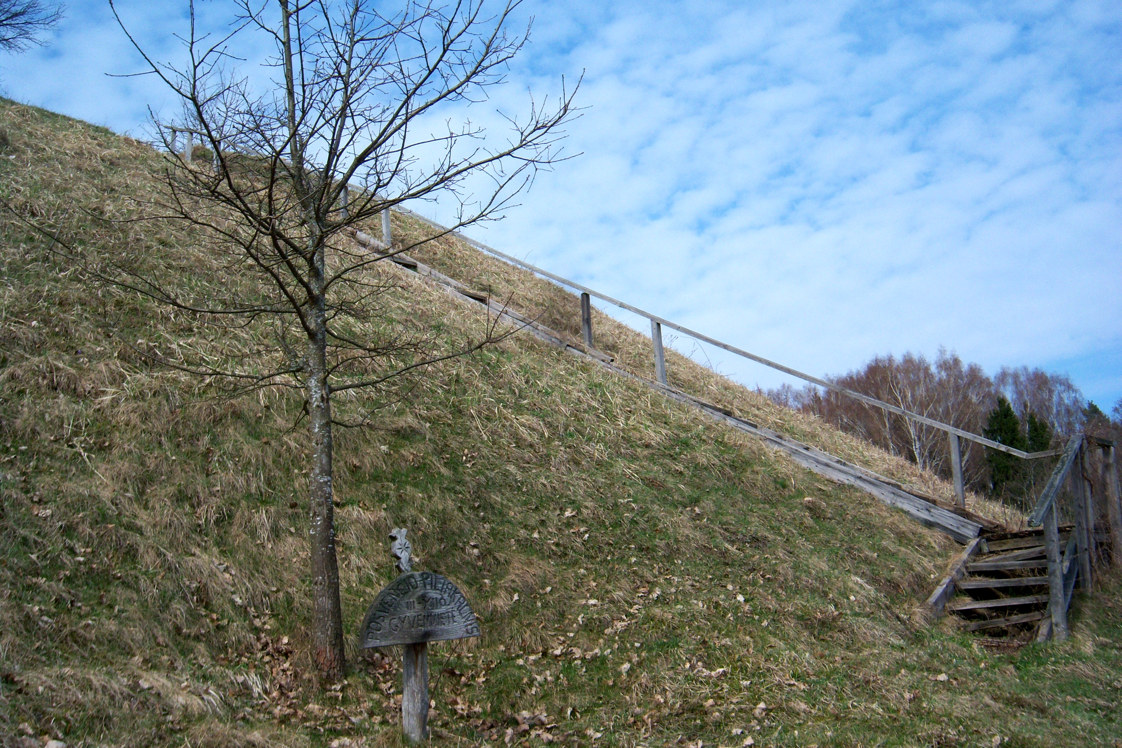 Pagaršvys hillfort, Prienai district, Lithuania